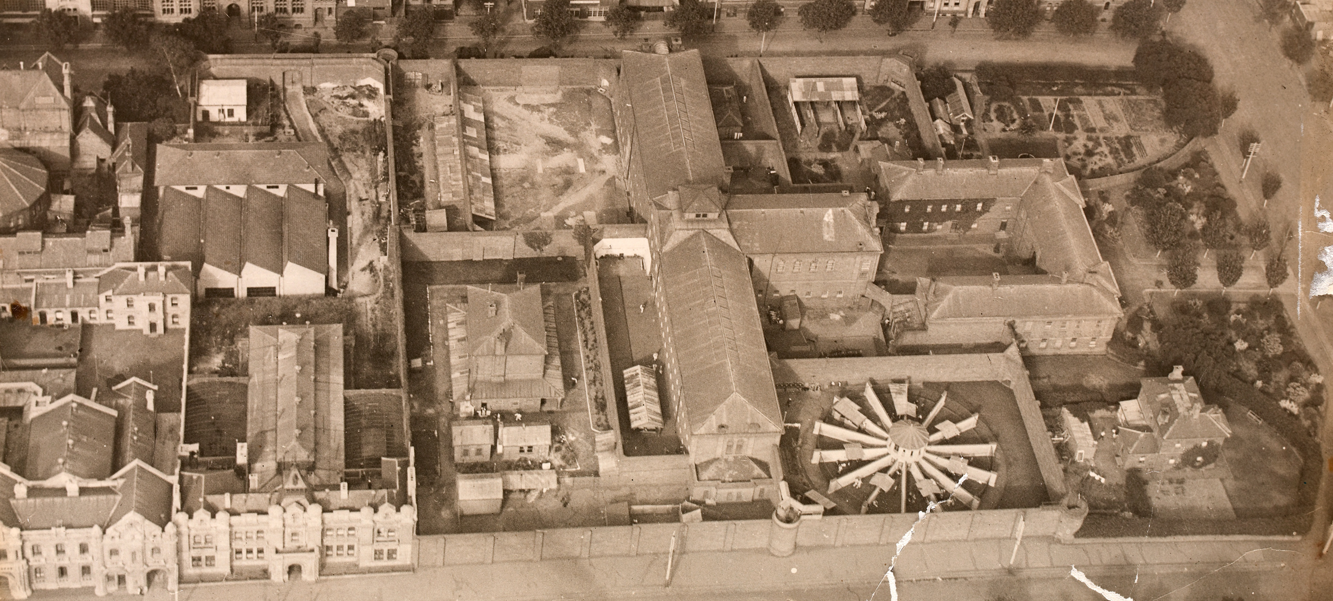 erial view of the old Melbourne Gaol, including the Governor's residence on the site of the later Emily McPherson College (built 1926) as well as the exercise yard. Also shows Bowen Street being used as a public thoroughfare before the construction of the Royal Melbourne Institute of Technology.